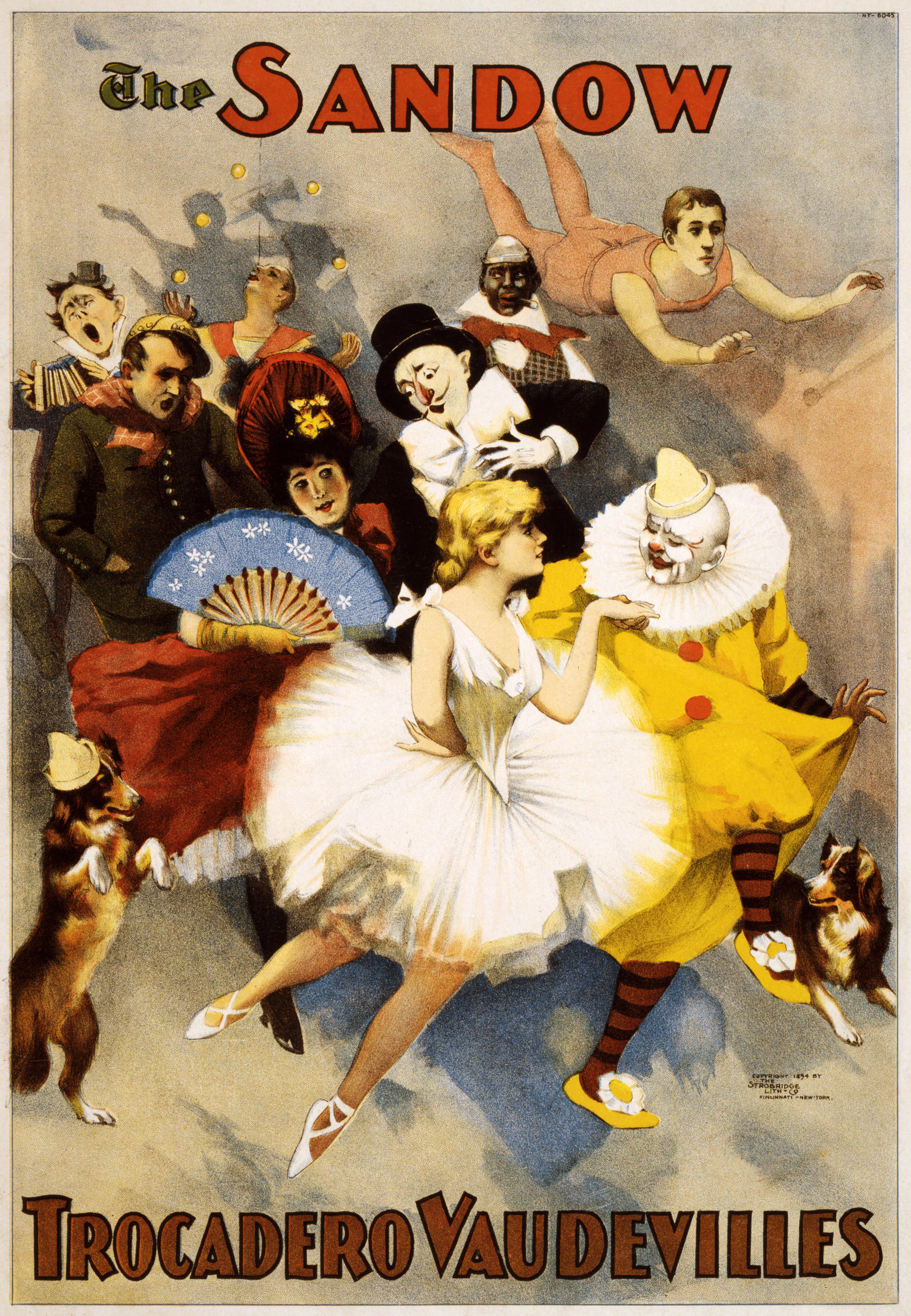 The Sandow Trocadero Vaudevilles. Promotional poster for the vaudeville act showing dancers, clowns, trapeze artists and dogs in costume.